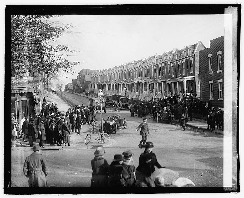 The intersection of Columbia Road NW, and Sherman Ave NW in Washington DC, taken in 1921.)